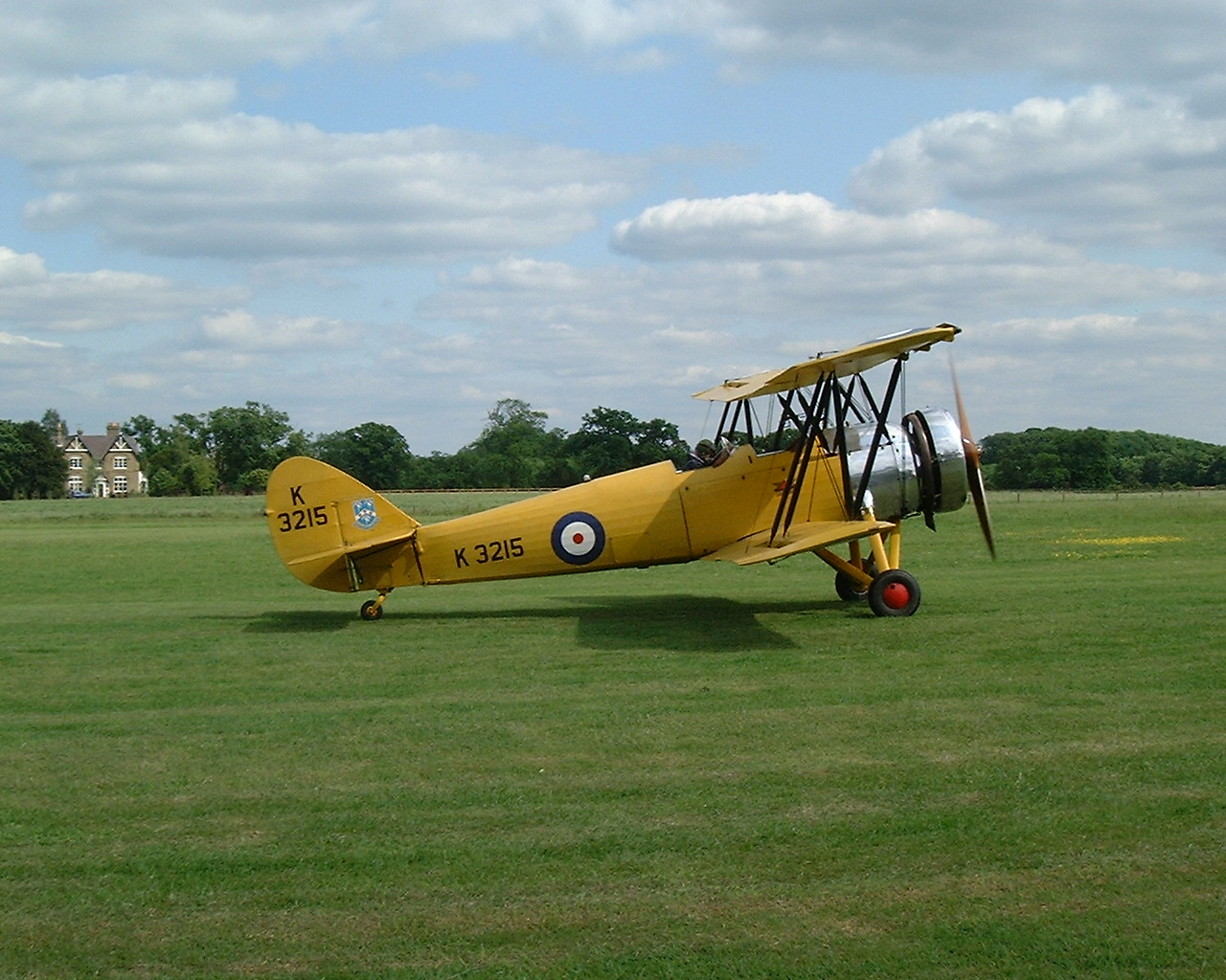 Avro 621 Tutor At the Shuttleworth Collection.